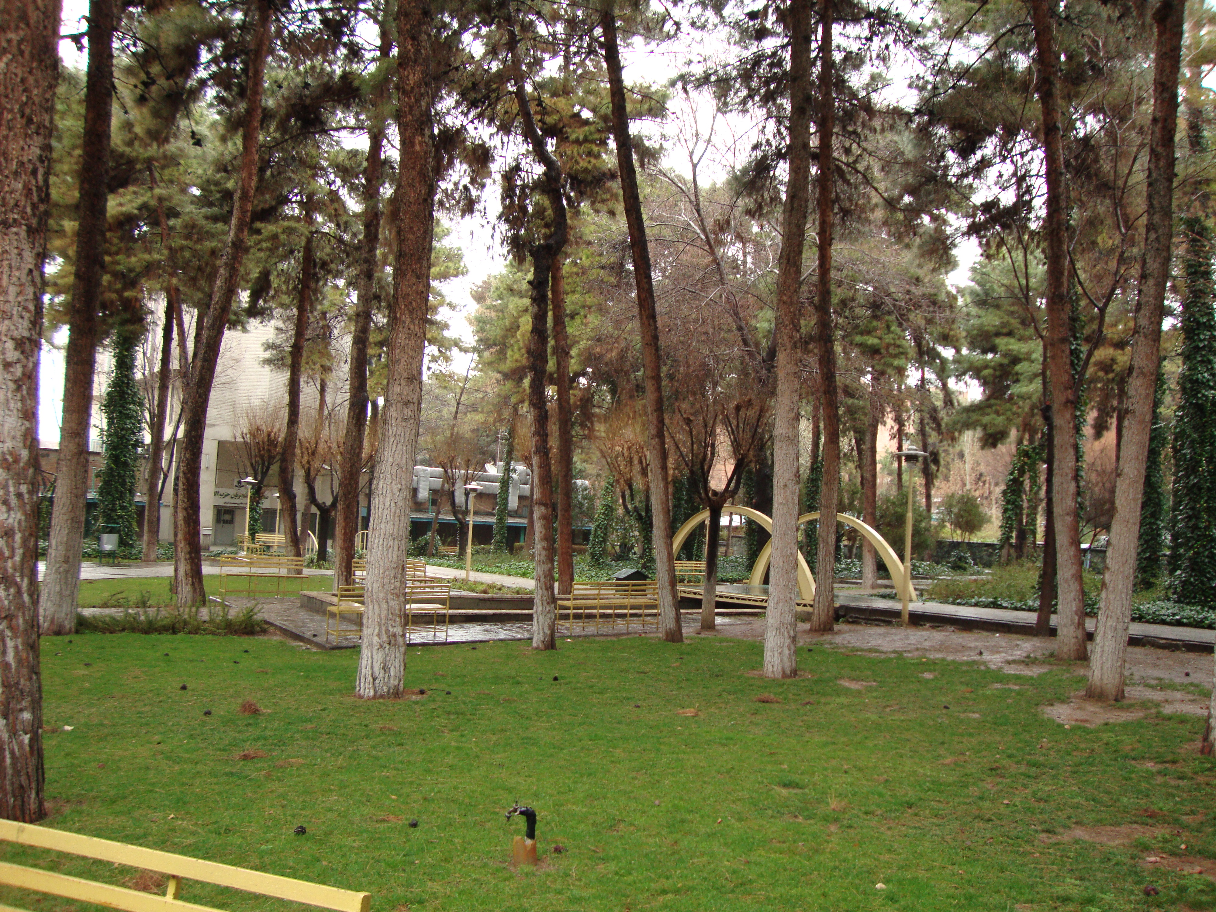 shahid yazdanparast Park of Iran University of Science and Technology